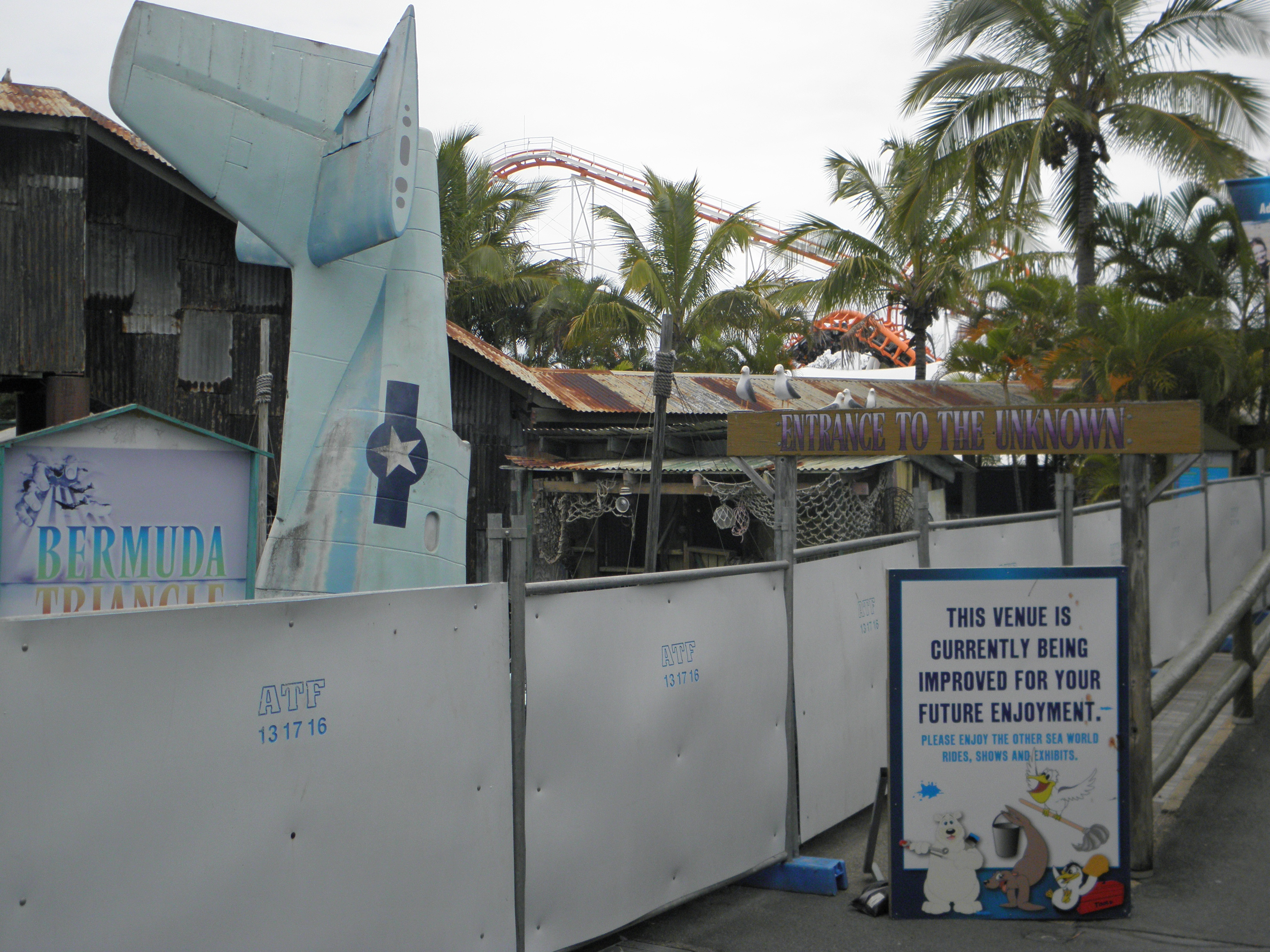 The Bermuda Triangle water ride at Sea World. The Entrance to the Unknown is fenced off with no likelihood of it reopening.